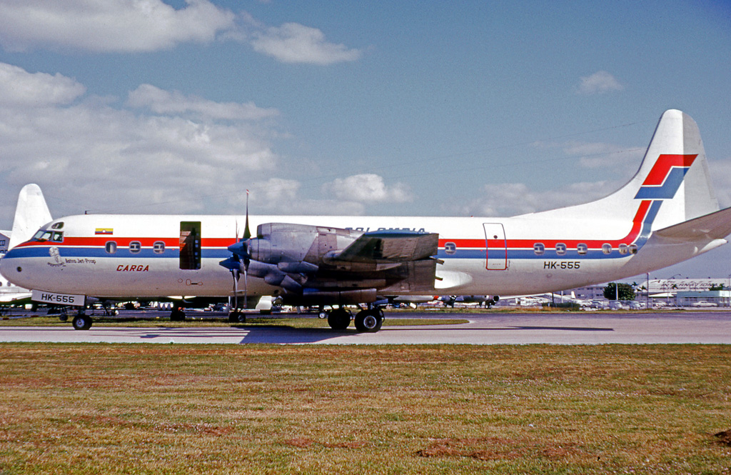 Lockheed L-188A Electra II HK-555 of SAM Colombia at Miami International Airport in 1973